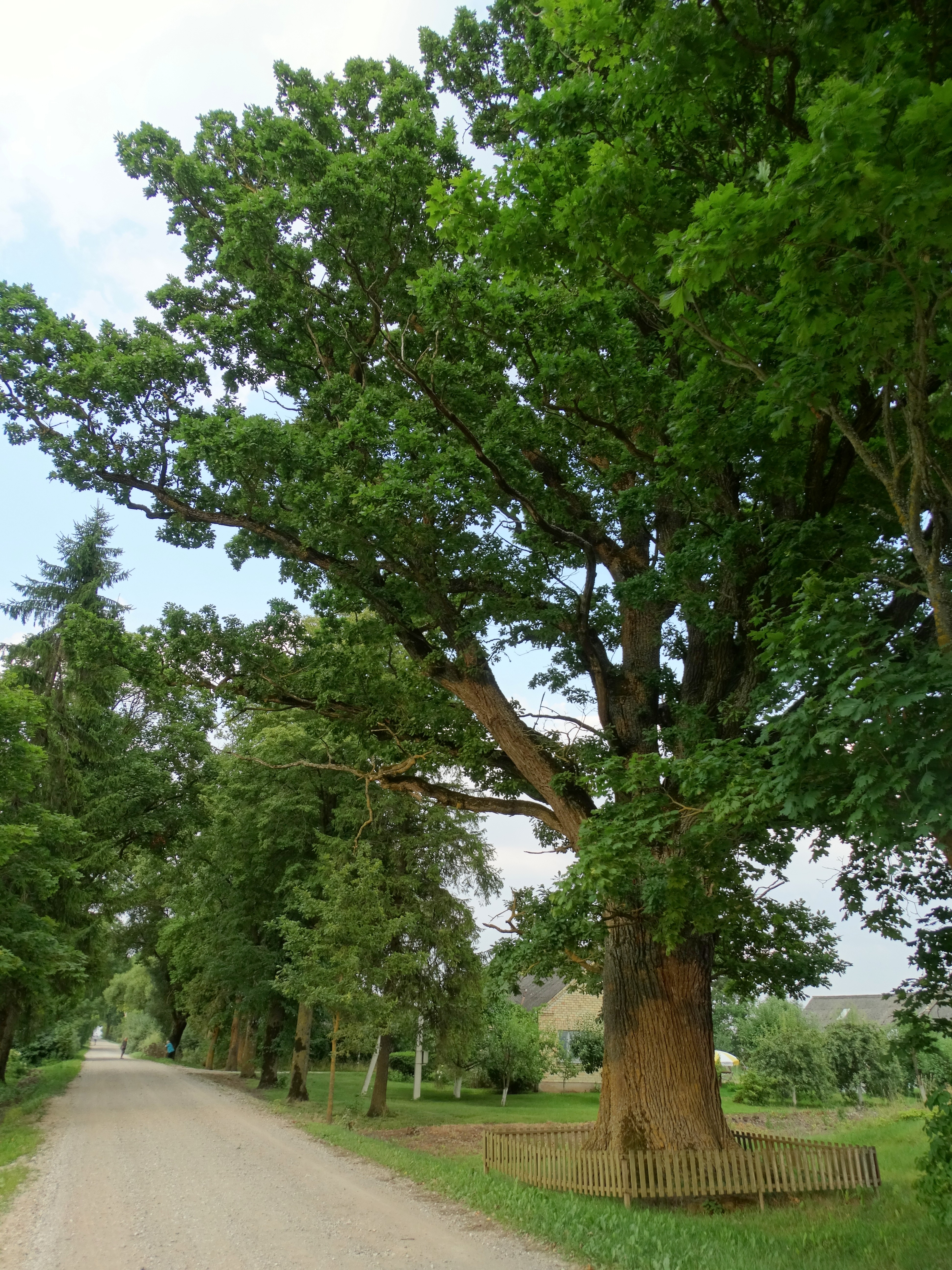 Oak, Veršiai, Joniškis District, Lithuania